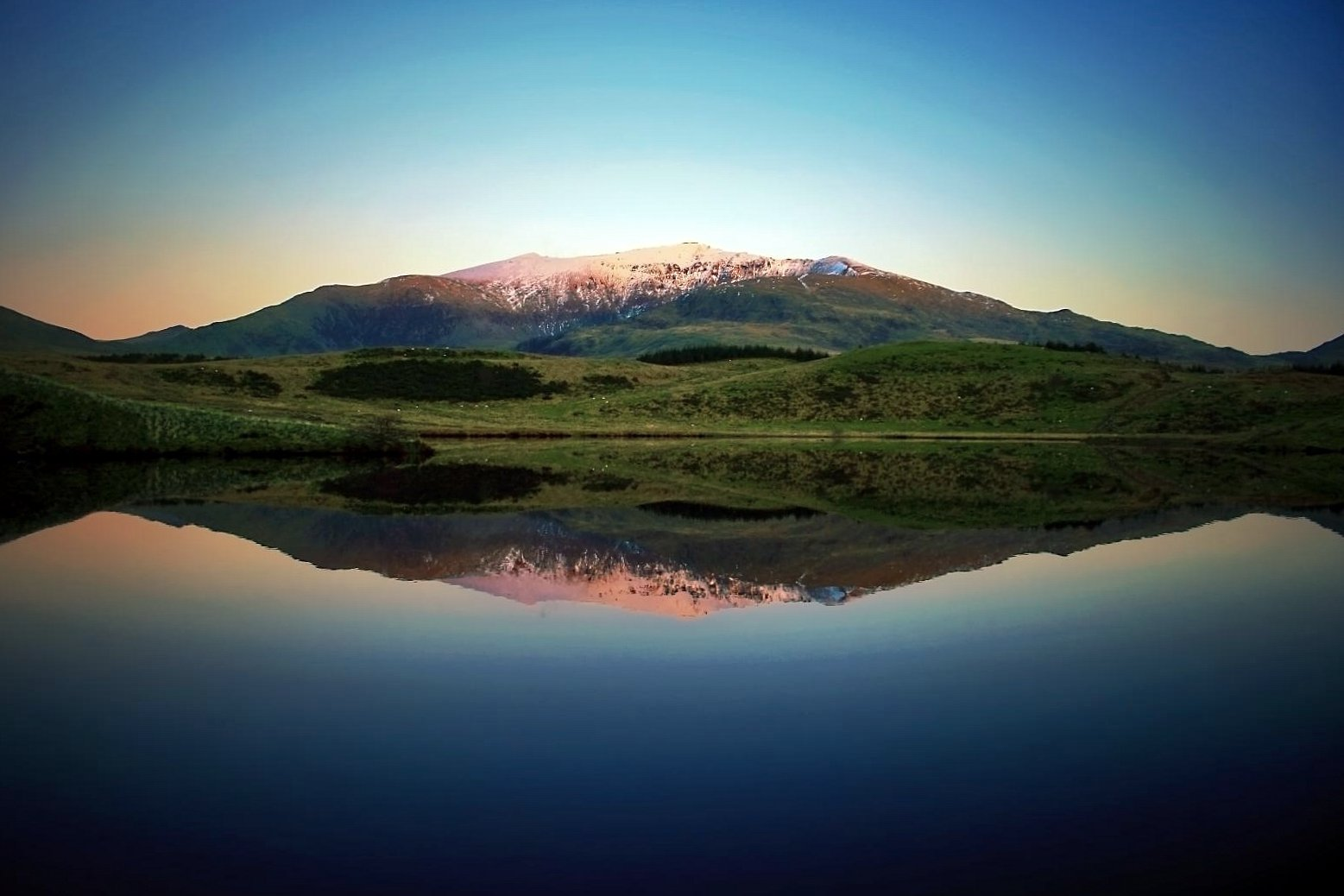 Mt. Snowdon reflected in the waters of Llyn y Dywarchen. If I tell you this was hand held - no tripod you can tell how calm the conditions were. Not like today, it's blowing a gale out there!